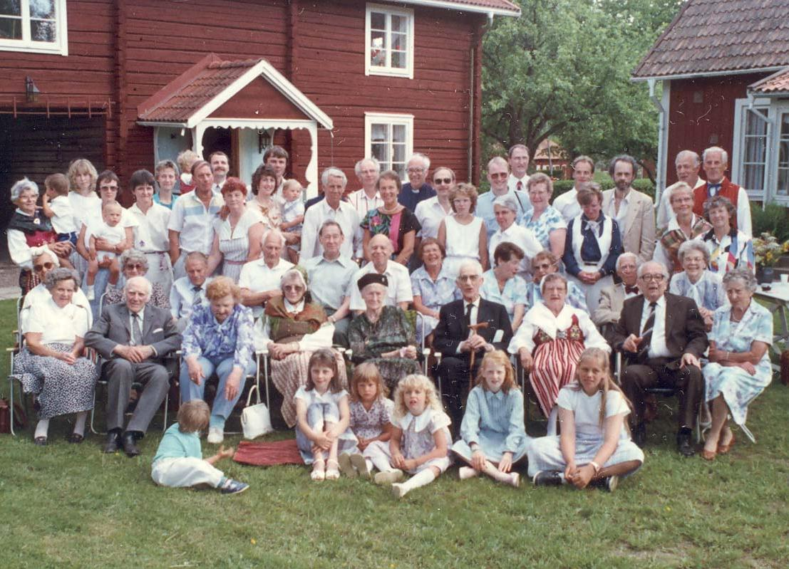 Reunion of family descending from Mats Ersson (1776-1809) of the Kaj Farm including Hans Ridderstedt, Lars Ridderstedt, Maria Ridderstedt & Jacob Truedson Demitz (more of the attending identified as per categories below)Place: Historic family farm, Borlänge, Sweden